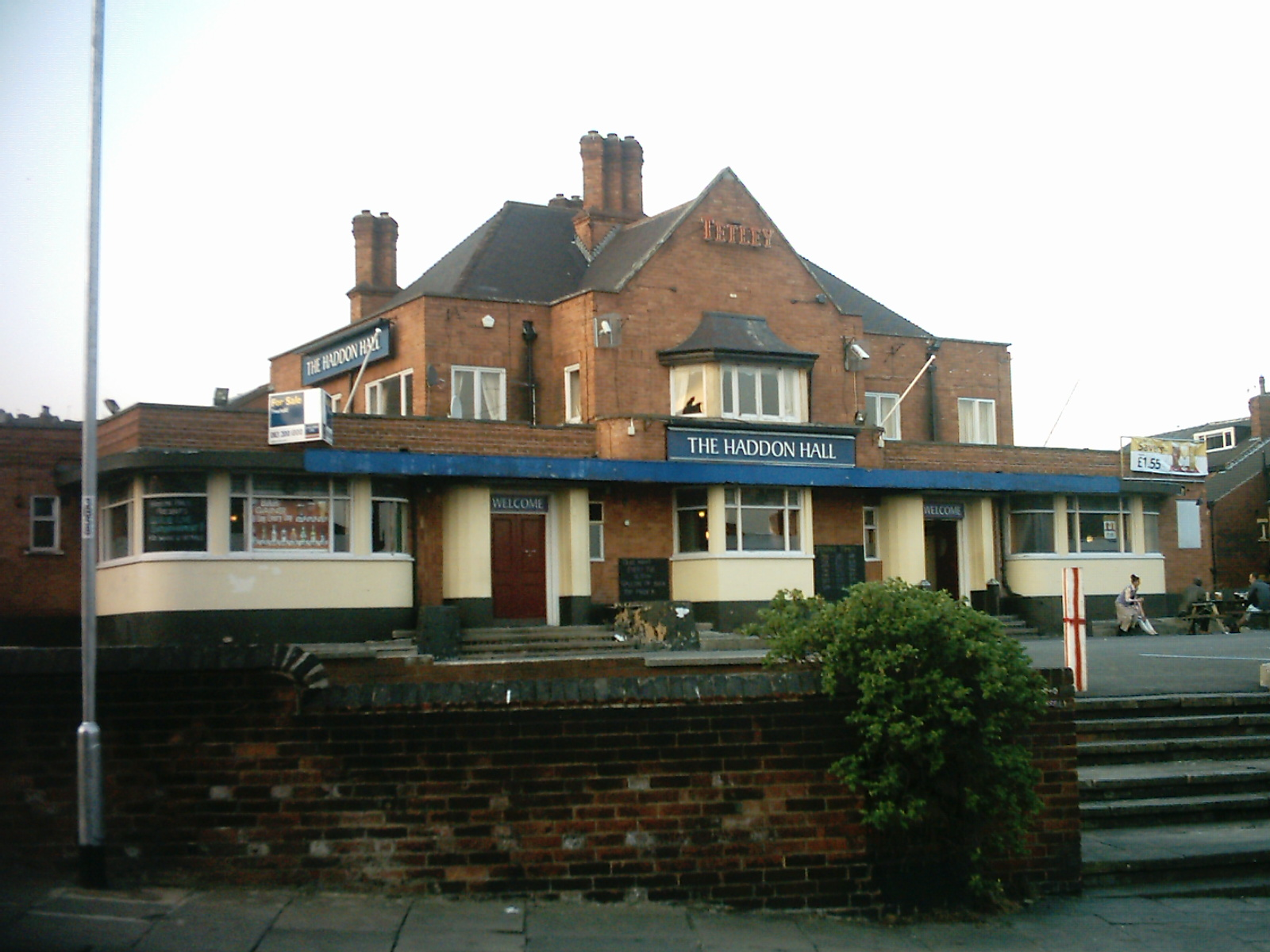 The Haddon Hall public house in Burley, Leeds, West Yorkshire, UK. This pub was used for the filming of the Beiderbecke Tapes in 1987. Taken on the evening of the 20th April 2009.